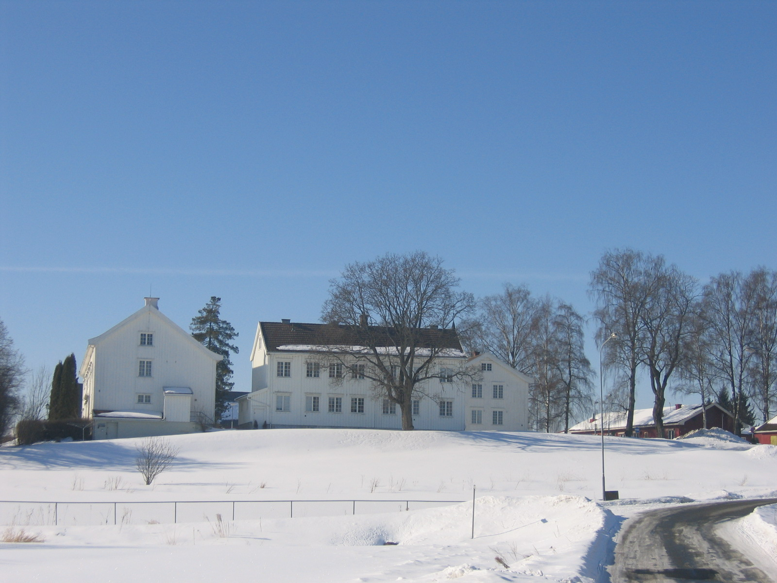 Åker Gård in Hamar, Hedmark, Norway. One of the oldest farms in Hedmark. Was an important religious center in year 500-1000.